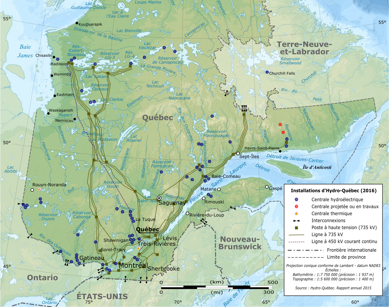 Map of Quebec, with Hydro-Québec generating stations and main transmission lines and substations (735 kV and ±450 kV DC) in separate layers.